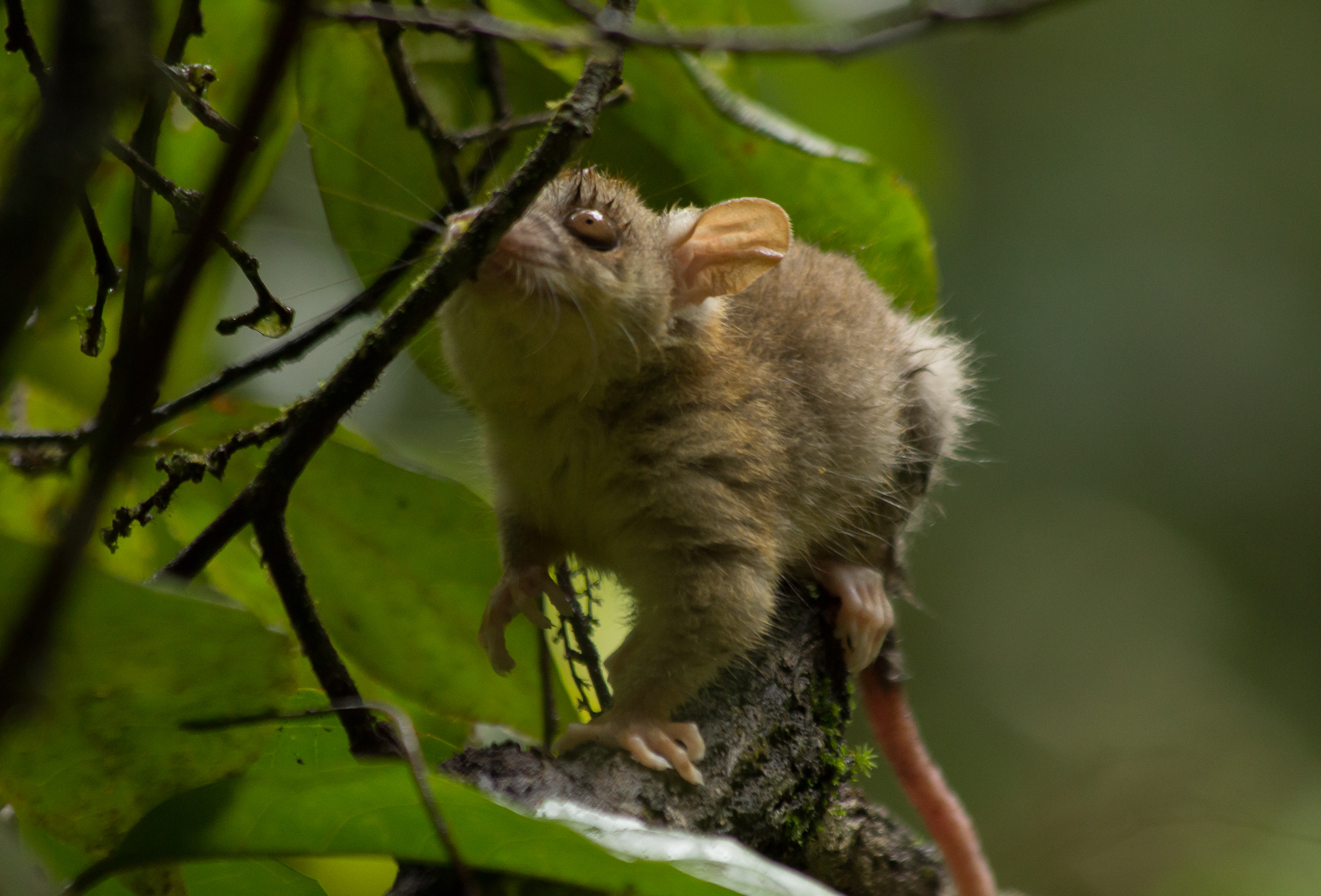 A Cuíca-lanosa (Caluromys philander) é noturna, solitária, arborícola e utiliza os estratos arbustivos ou arbóreos da floresta. Vive na Mata Atlântica, Cerrado e Amazônia. --- English --- The Bare-tailed Woolly Opossum (Caluromys philander) is nocturnal, solitary, arboreal and uses shrubs or tree layers of the forest. Lives in the Atlantic Rainforest, Cerrado and Amazon.